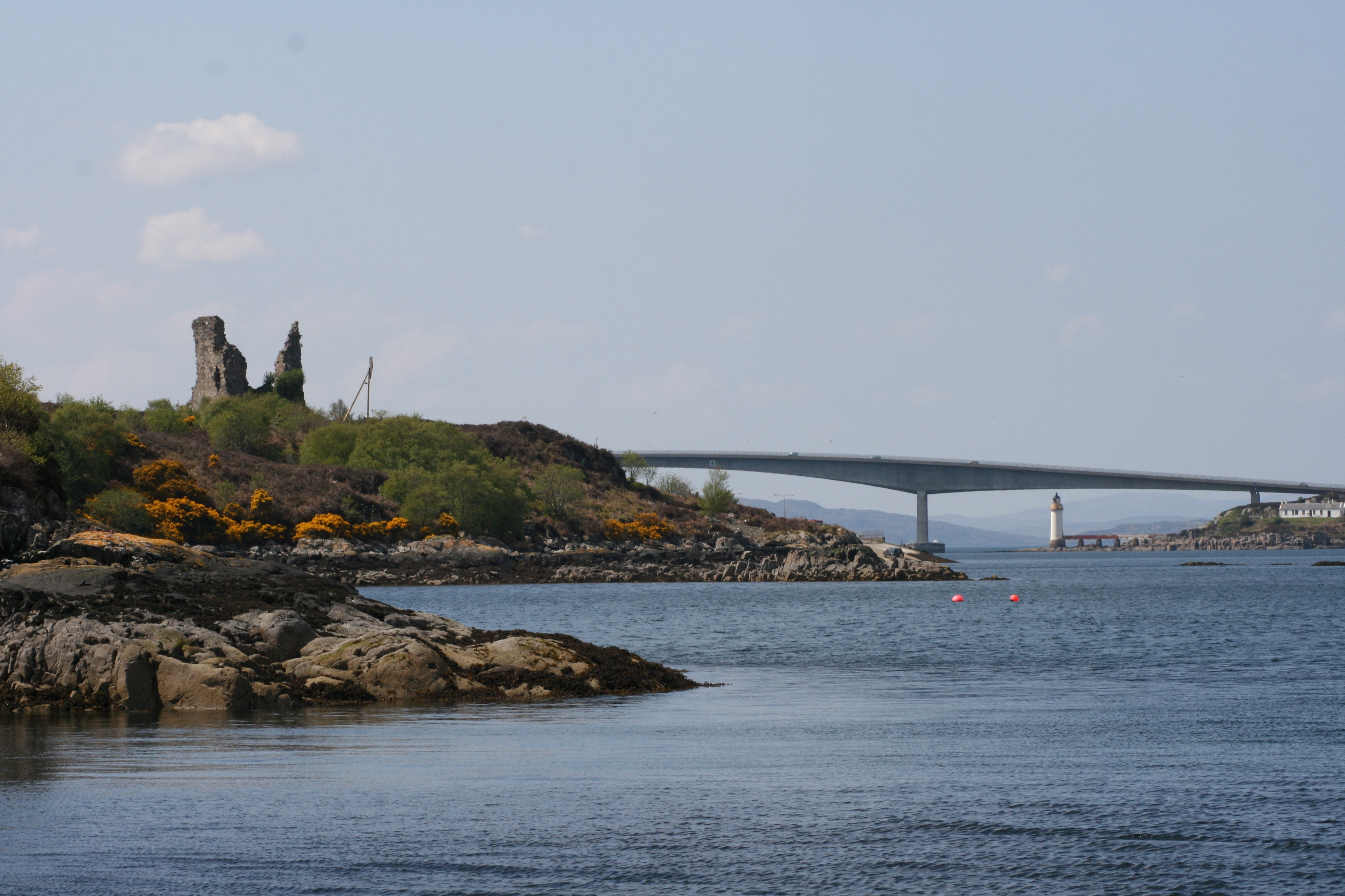 Caisteal Maol, Skye, with Skye bridge and Kyleakin Lighthouse in the background.